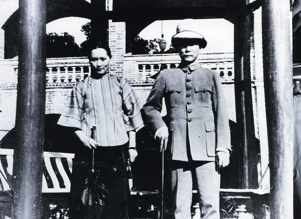 Sun Yat-sen and Soong Ching-ling were in Guangzhou. 孙中山宋庆龄1923年在广州留影